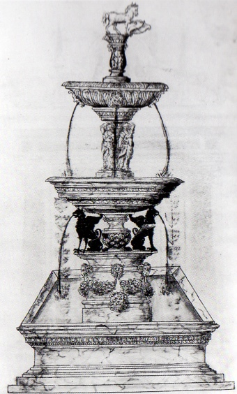 Fountain in the inner court of Nonsuch Palace (1590). From The Red Velvet Book, an inventory for the Lumley family.